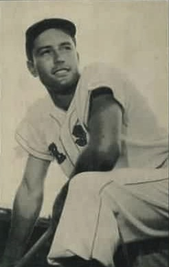 Boston Red Sox centerfielder Jimmy Piersall in 1953.